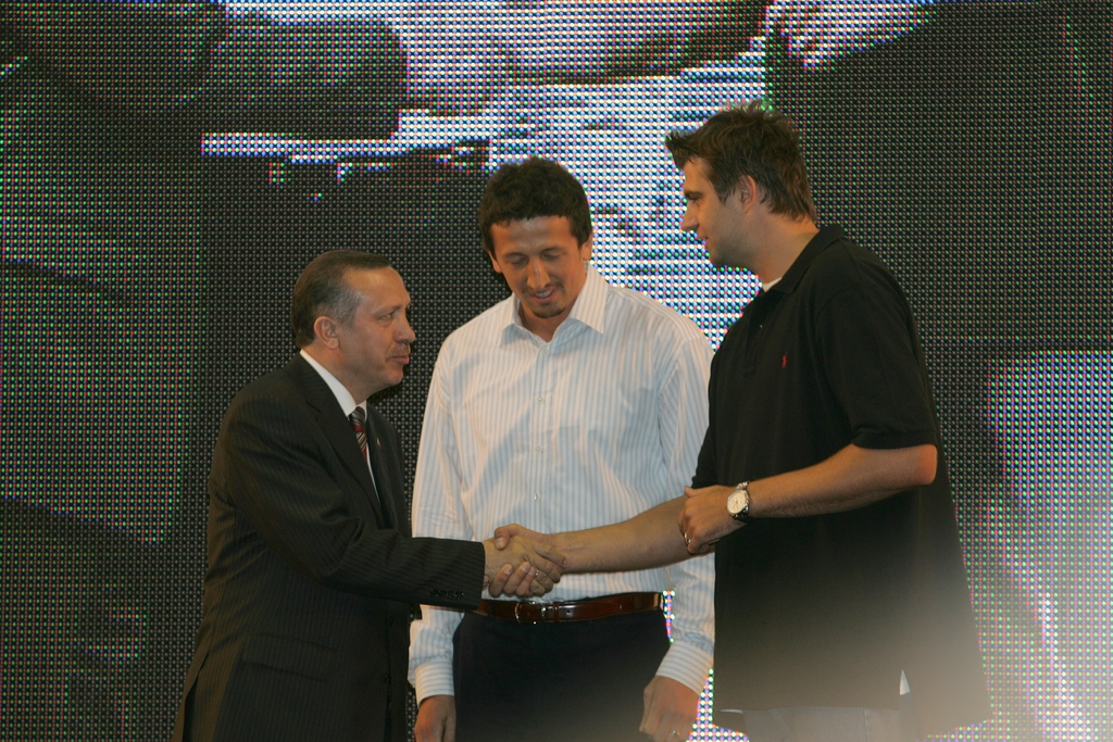 Turkish Prime Minister Recep Tayyip Erdogan (L) with NBA players Hidayet Türkoğlu (M) and Mehmet Okur (R)